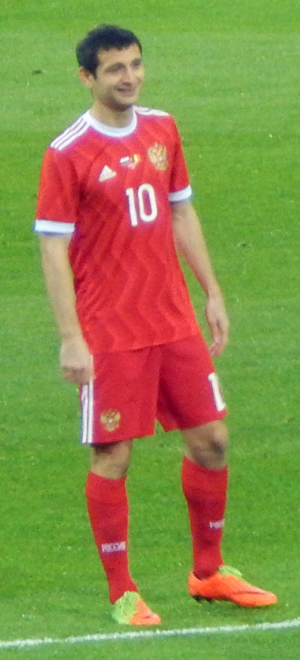 This photo was taken on March 28, 2017 during the exhibition game between Russia and Belgium. That game was held in Adler (City of Sochi) at the Fisht stadium.